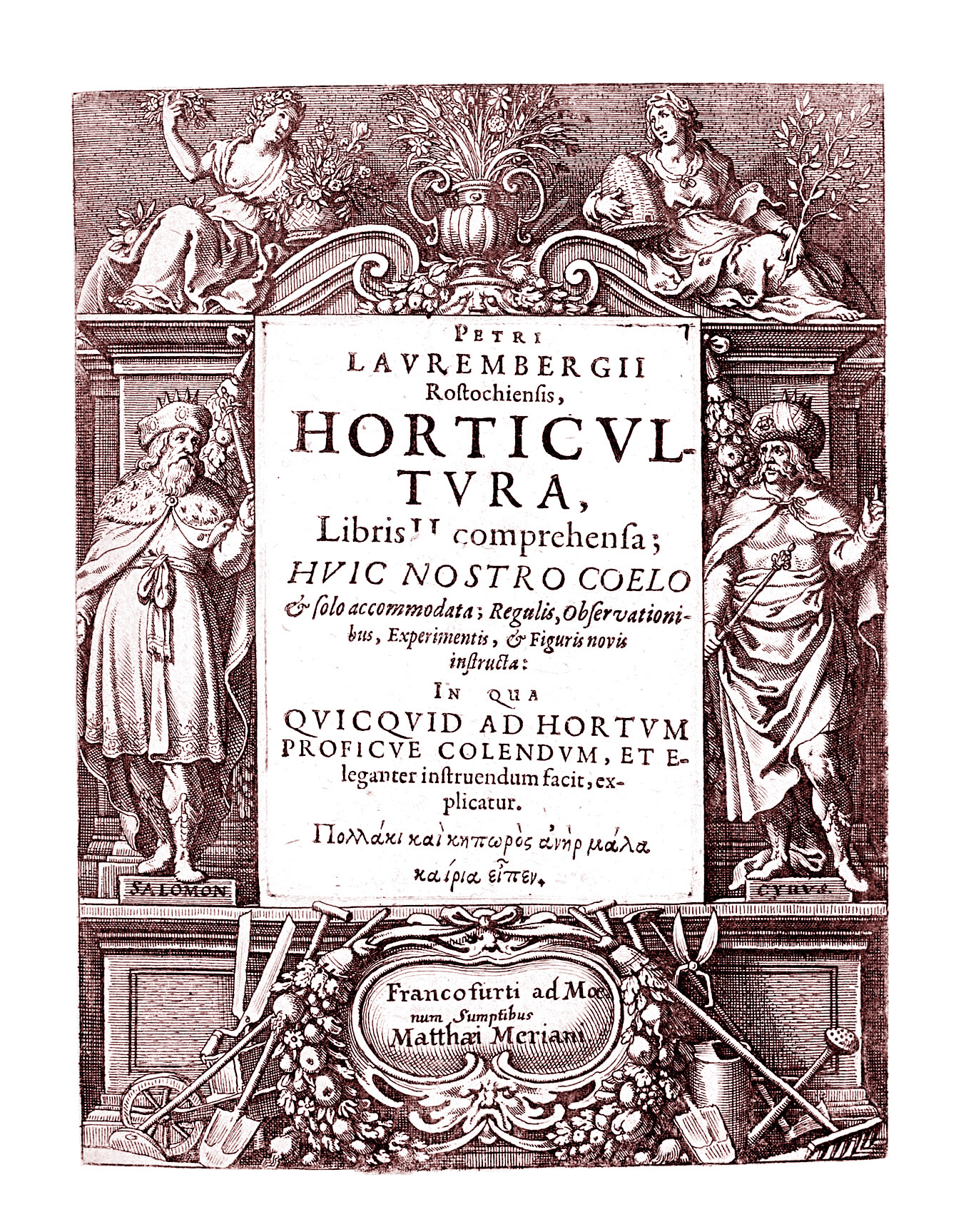 Peter Lauremberg, Horticultura, 1631